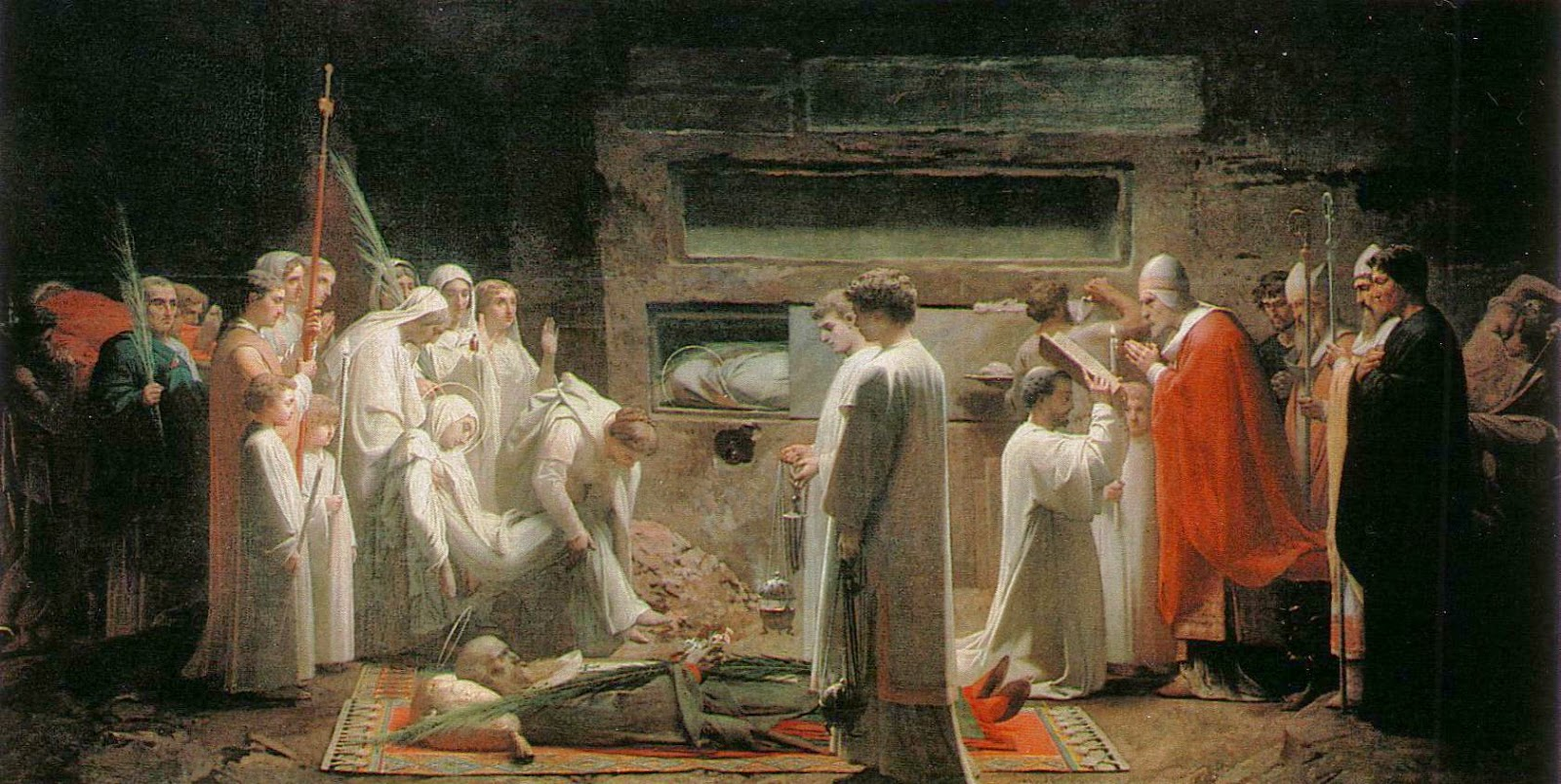 The martyrs in the catacombs (oil on canvas)